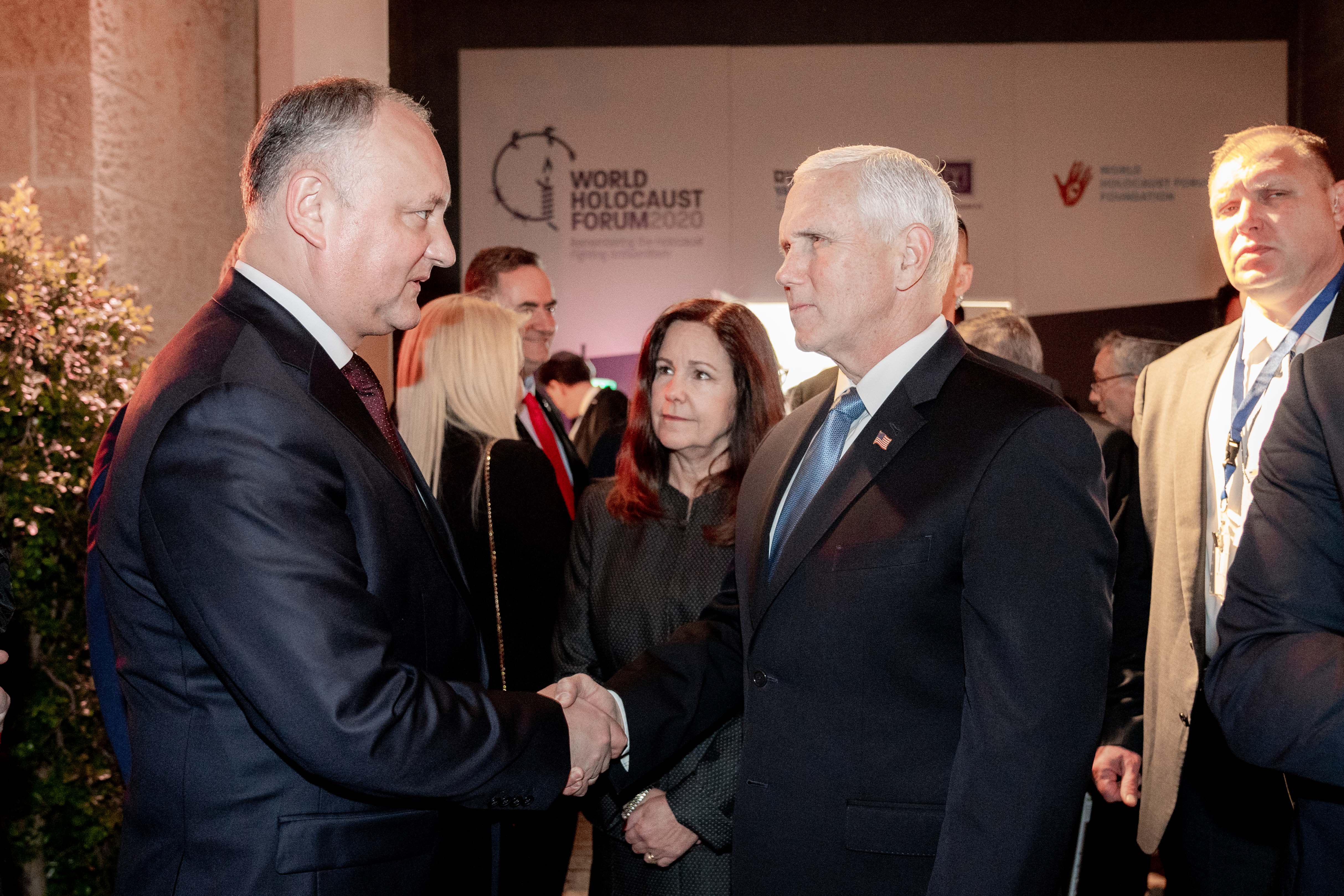 Vice President Mike Pence and Mrs. Karen Pence arrive at the Yad Vashem in Jerusalem Thursday, Jan. 23, 2020, to participate in the Fifth World Holocaust Forum for the 75th Anniversary of the Liberation of Auschwitz-Birkenau in Jerusalem, Israel. (Official White House photo by D. Myles Cullen)